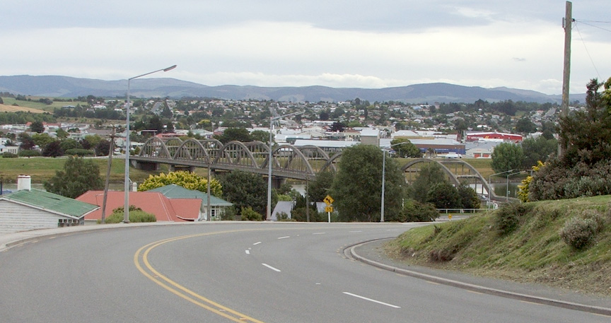 Looking south across the Clutha River to Balclutha, New Zealand (photographed January 2006)